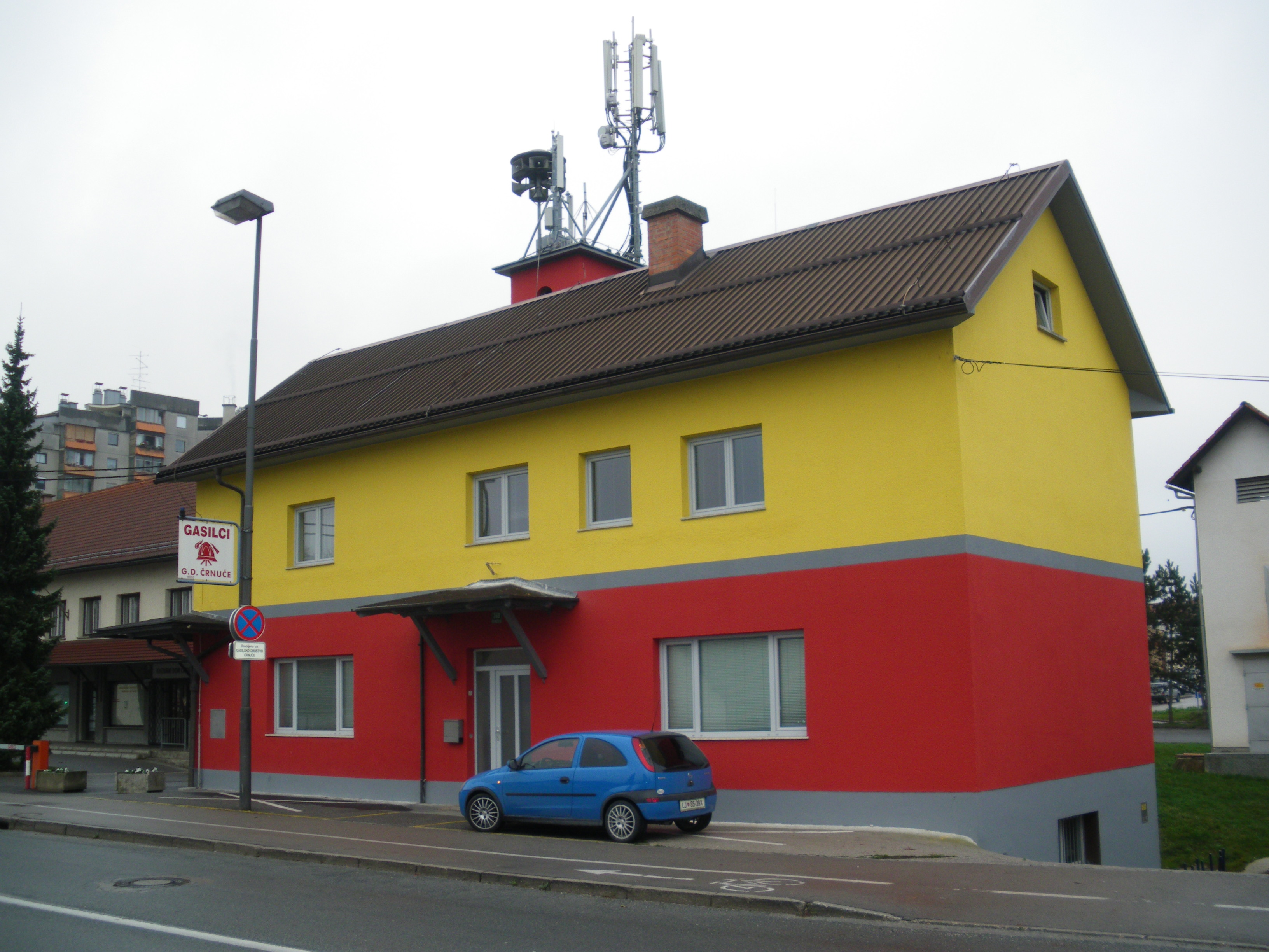 Firefighters' building in Črnuče.